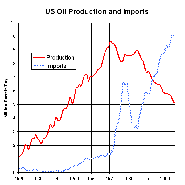 United States petroleum production and imports, 1920 to 2005; data from the Energy Information Administration of the United States Department of Energy